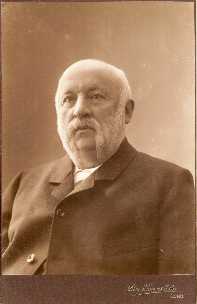 Michaël Kolmodin Löwegren (1836-1923), Swedish professor in medicin at Lund university, Sweden.